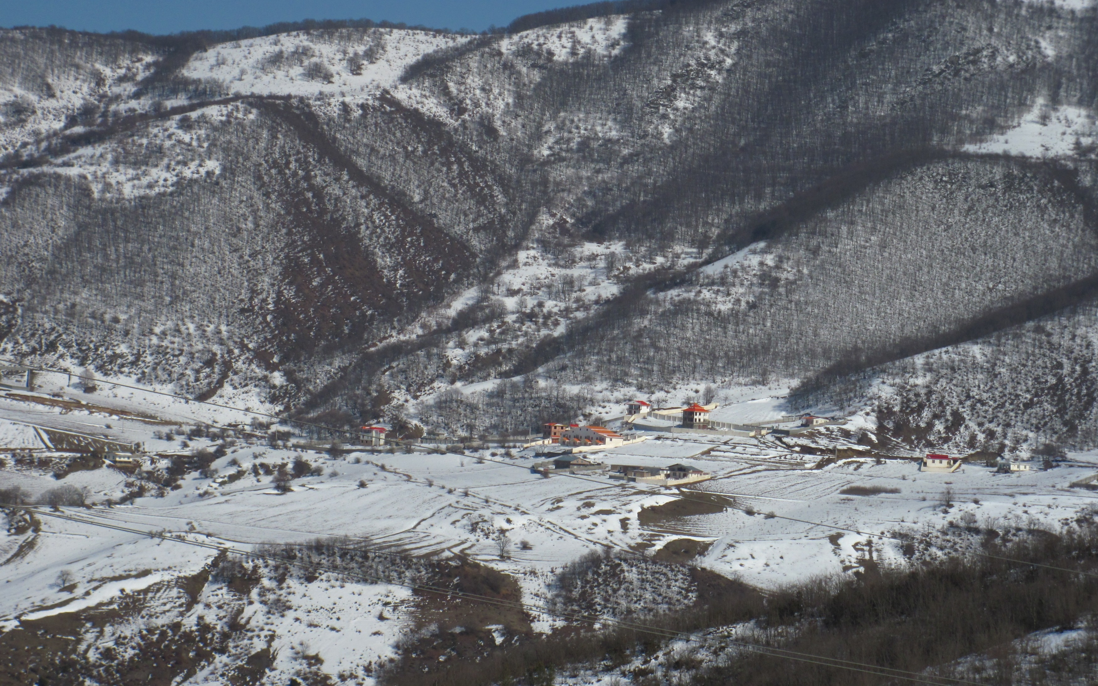 This photo of Garmanab village in Arasbaran region was taken by Ravanbakhsh Leysi.